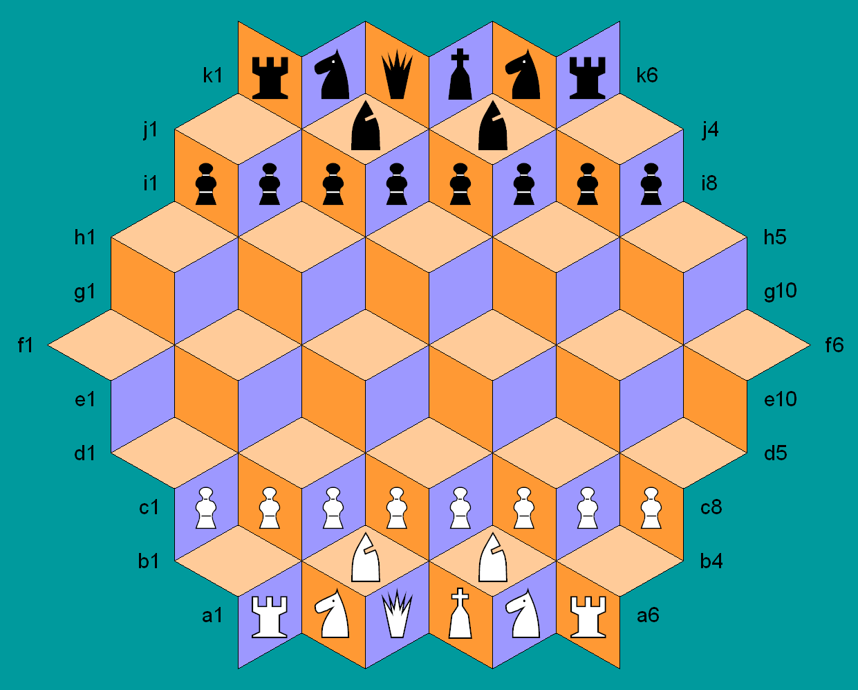 Colors and notation system borrowed from Paletta's Chessvariants and Zillions-of-Games graphic; piece icons are free-use Utrecht chess font; all done in MS PAINT.